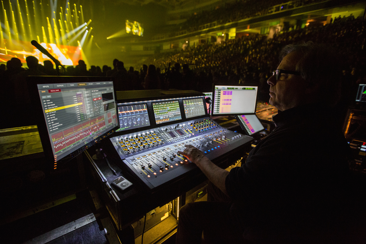 Greg Price mixing Black Sabbath on digidesign Venue S6L